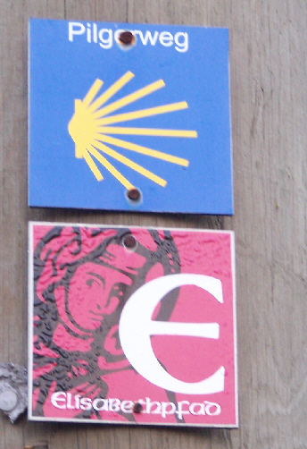 A marking of the Elisabeth pilgrim trail at the church in Spichra.